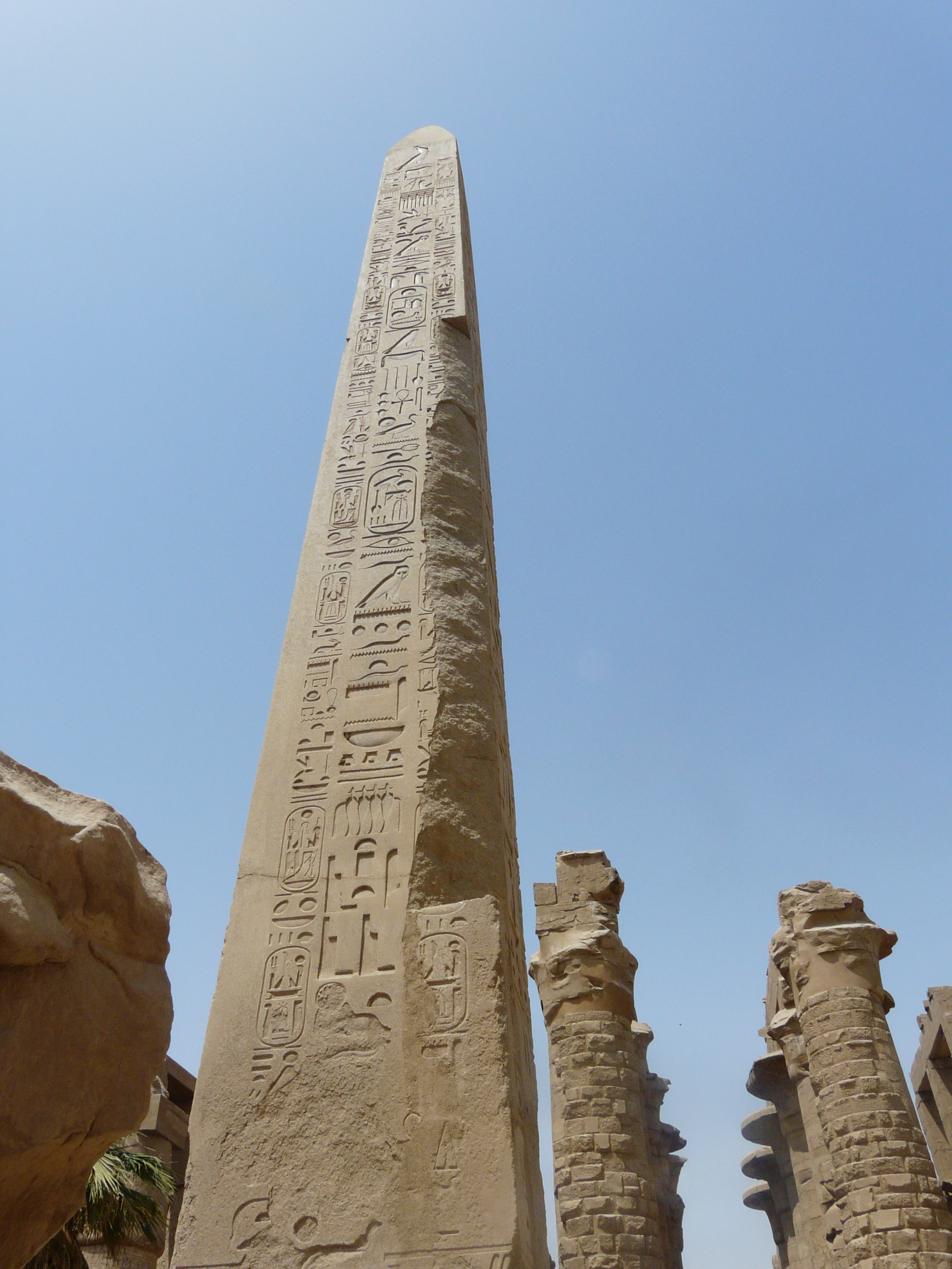 Karnak: Cour du 4ème pylone - Obélisque de Thoutmôsis Ier (Karnak: Court of the 4th pylon - Obelisk of Thutmose I)